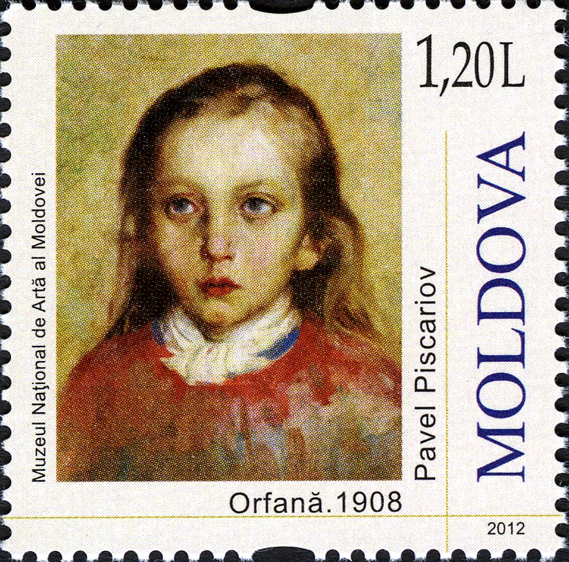 Stamps of Moldova